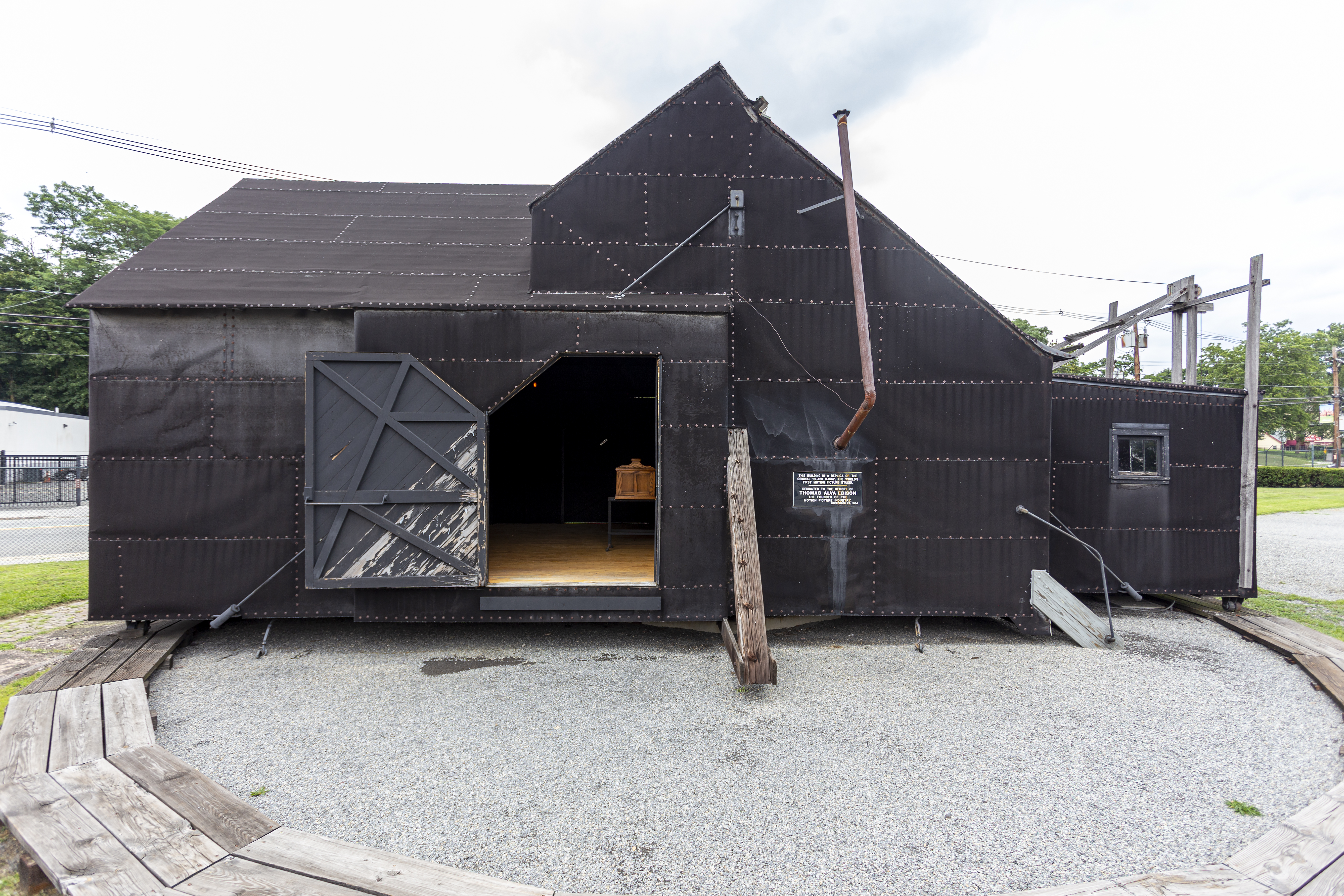 Thomas Edison's "Black Maria" motion picture studio, Thomas Edison National Historical Park, New Jersey, USA